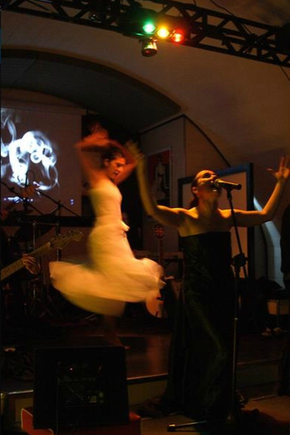 C.F.F. e il Nomade Venerabile live November 2008